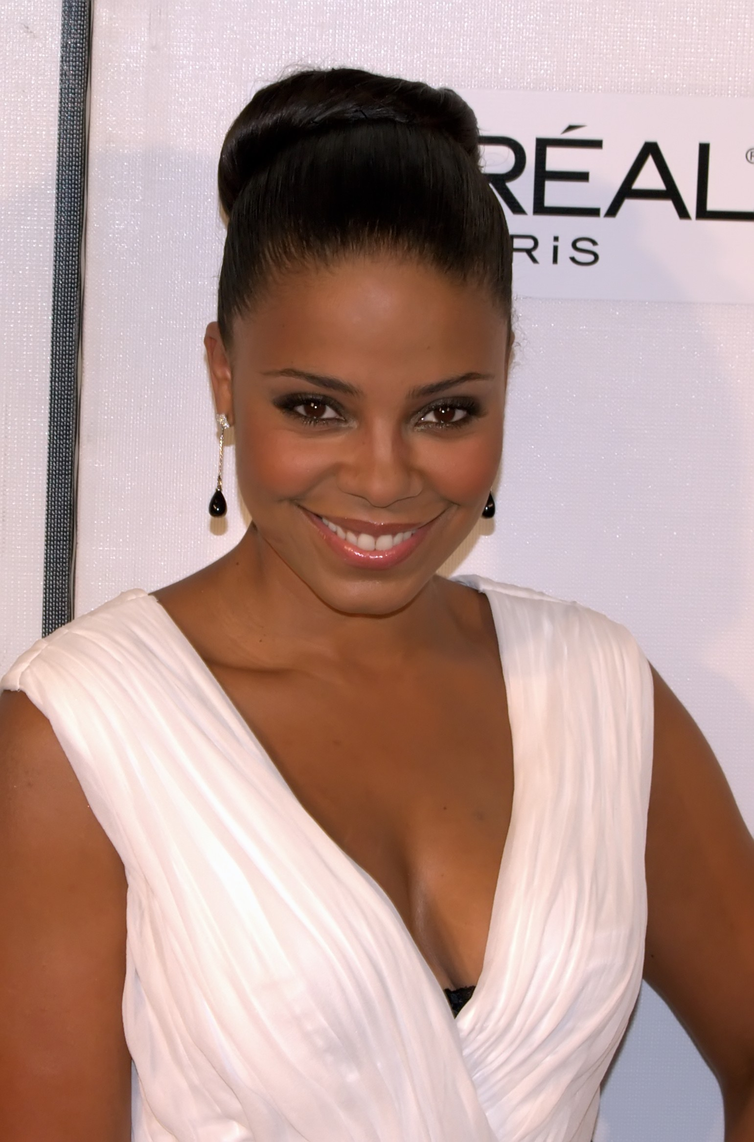 Sanaa Lathan at the 2009 Tribeca Film Festival premiere of Wonderful World. Photographers blog post about the event and this photo.